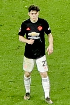 Wolves vs Man Utd, FA Cup Third Round, 4 Jan 2020